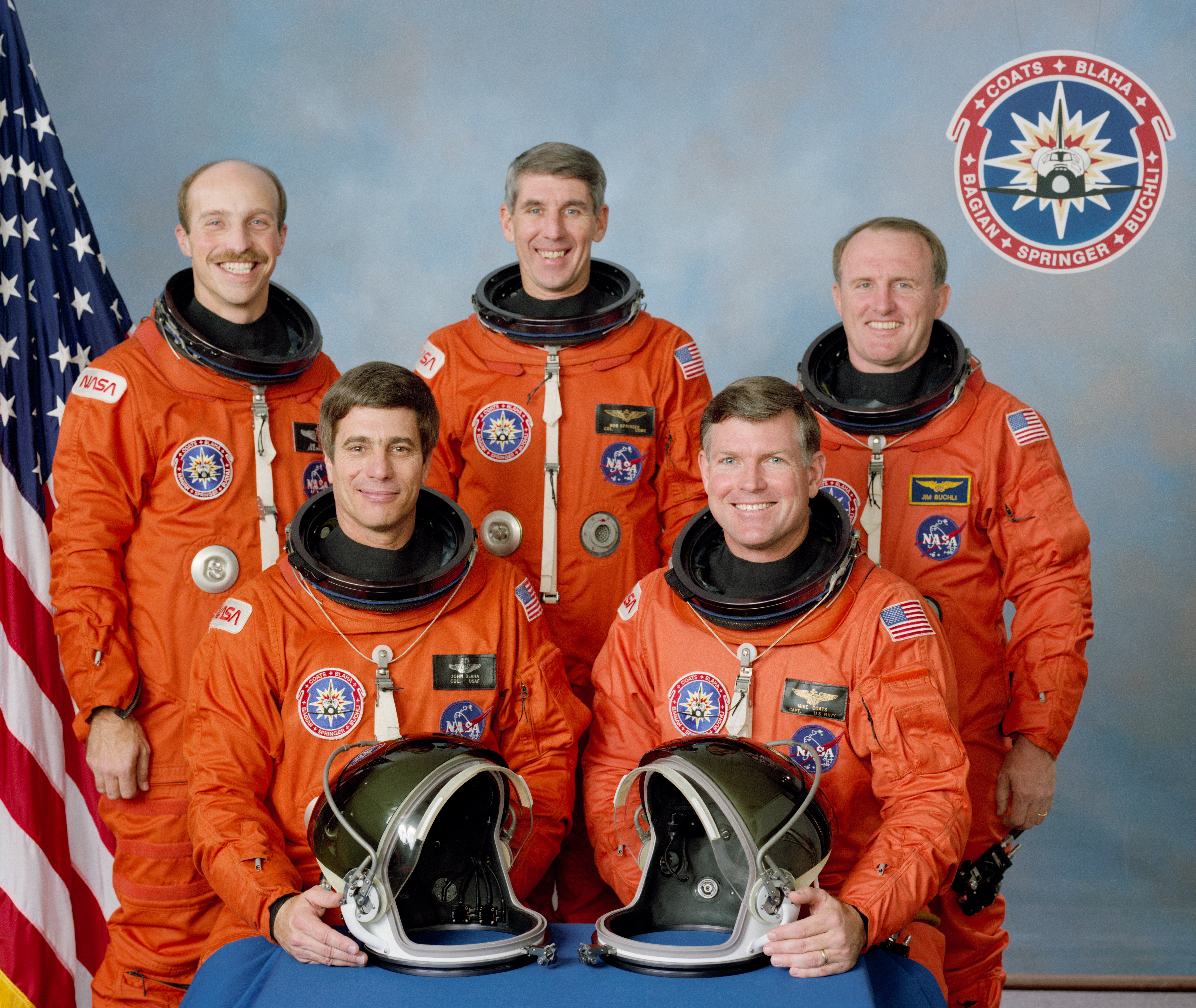 Five astronauts composed the STS-29 crew. Standing (left ot right) are James P. Bagian, mission specialist 1; Robert C. Springer, mission specialist 3; and James F. (Jim) Buchli, mission specialist 2. Seated (left to right) are John E. Blaha, pilot, and Michael L. Coats, commander. STS-29 launched aboard the Space Shuttle Discovery on March 13, 1989 at 9:57 am (EST). The primary payload was the Tracking and Data Relay Satellite- 4 (TDRS-4).